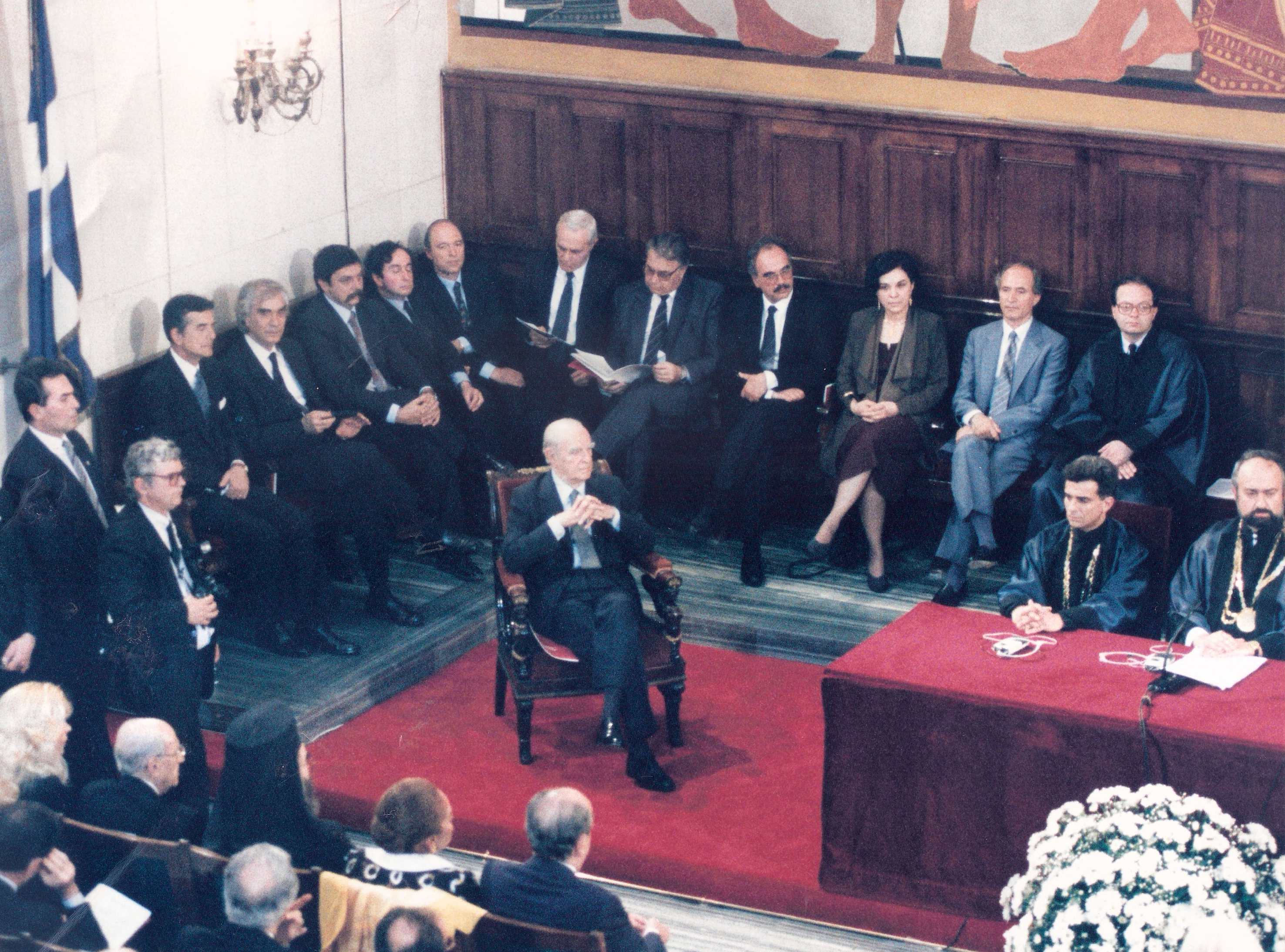 Aimilios Metaxopoulos with various others, see picture for details.